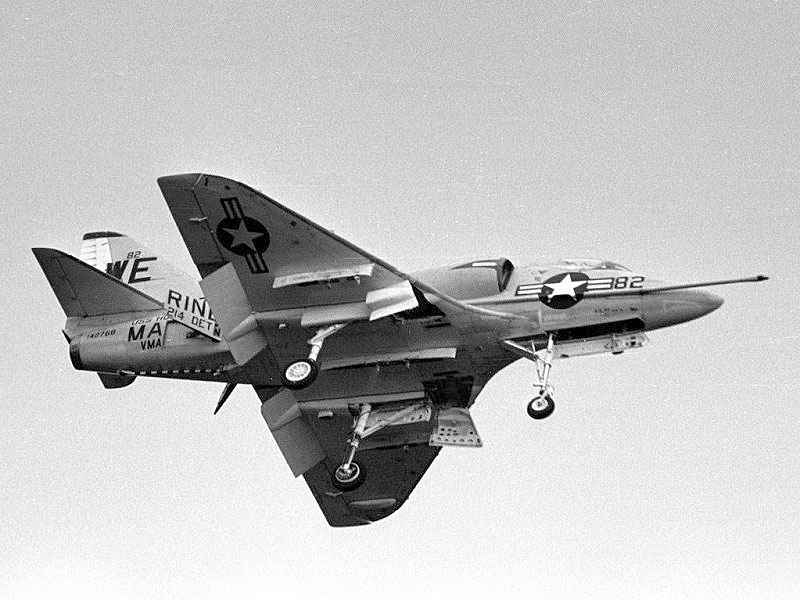 A Douglas A-4B Skyhawk (BuNo 142768?) of Marine attack squadron VMA-214 Det. N Black Sheep comes in to land at Naval Air Station Atsugi (Japan) in 1964. Det. N was stationed aboard the aircraft carrier USS Hornet (CVS-12) as part of Anti-Submarine Carrier Air Group 57 (CVSG-57) on a deployment to the western Pacific from 10 Oct 1963 to 15 Apr 1964. Normally a CVSG had a detachment of six pilots and four A-4s assigned for self-defence.